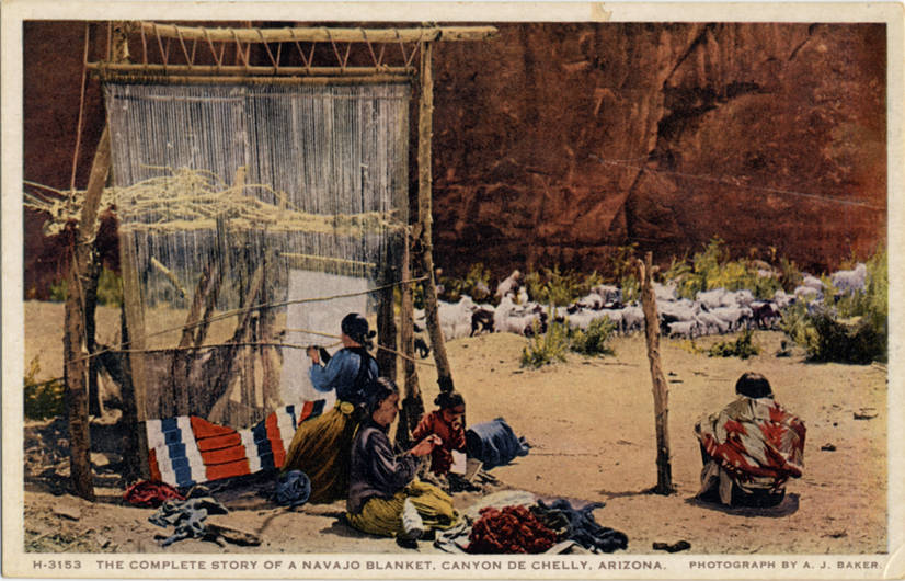 The complete story of a Navajo Blanket, photo by A J Baker, Fred Harvey